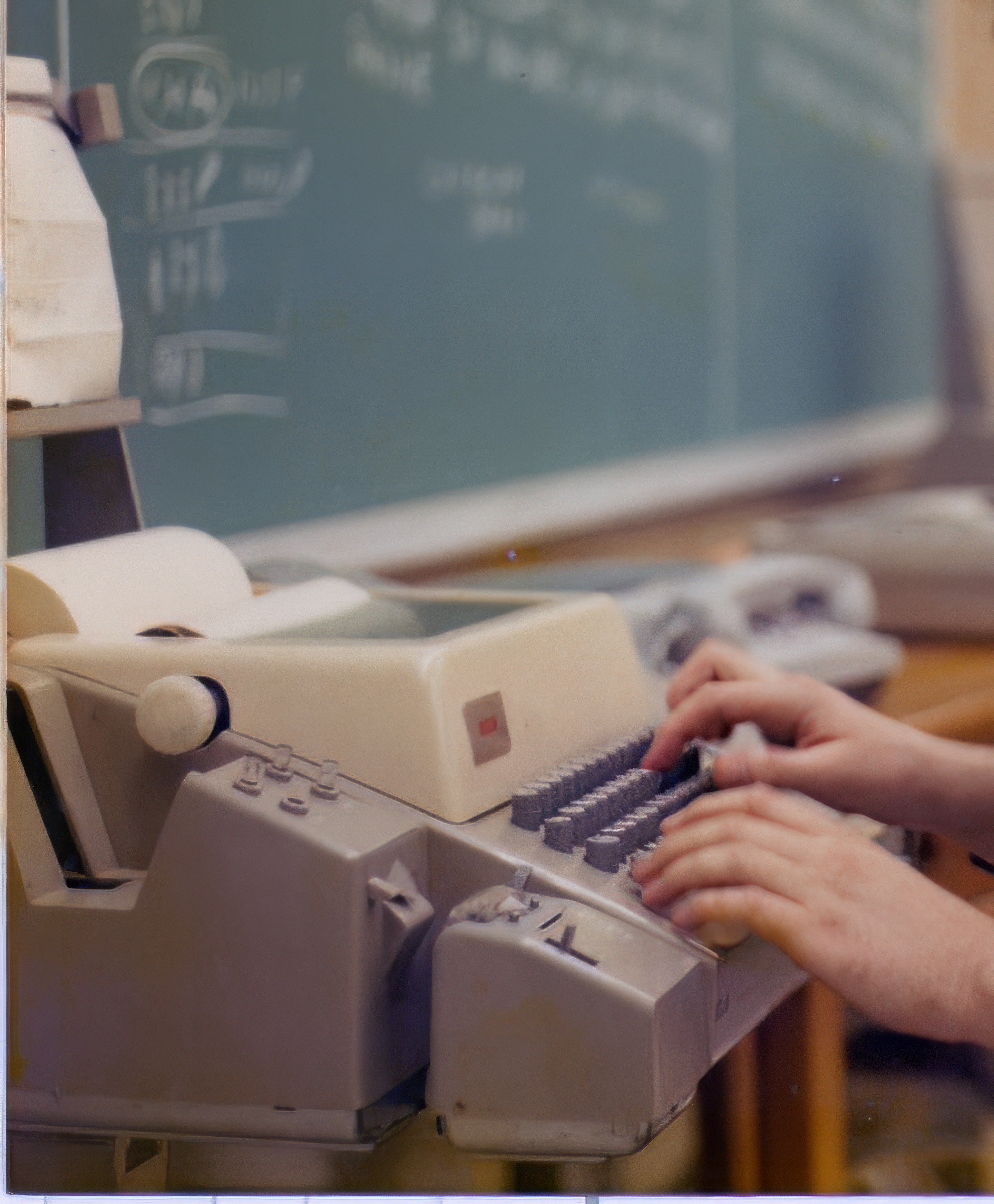 A Teletype model 33 ASR in use in the winter of 1978. Scanned 2011-08-07